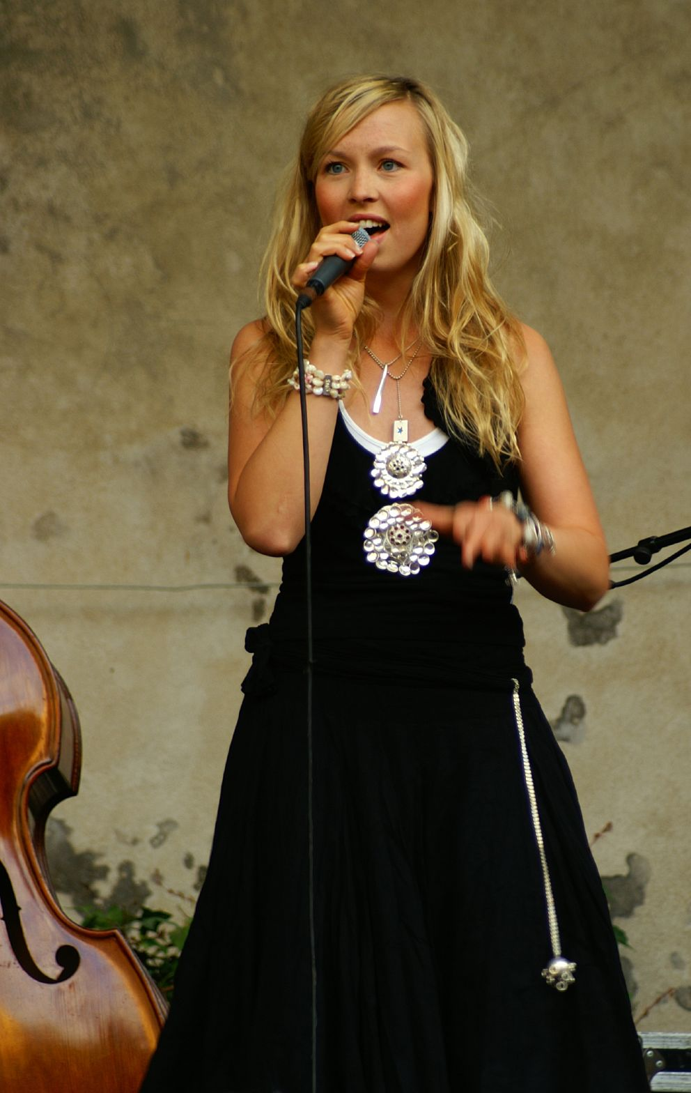 Sofia Jannok live at the Centre Culturel Suédois (Paris, France).